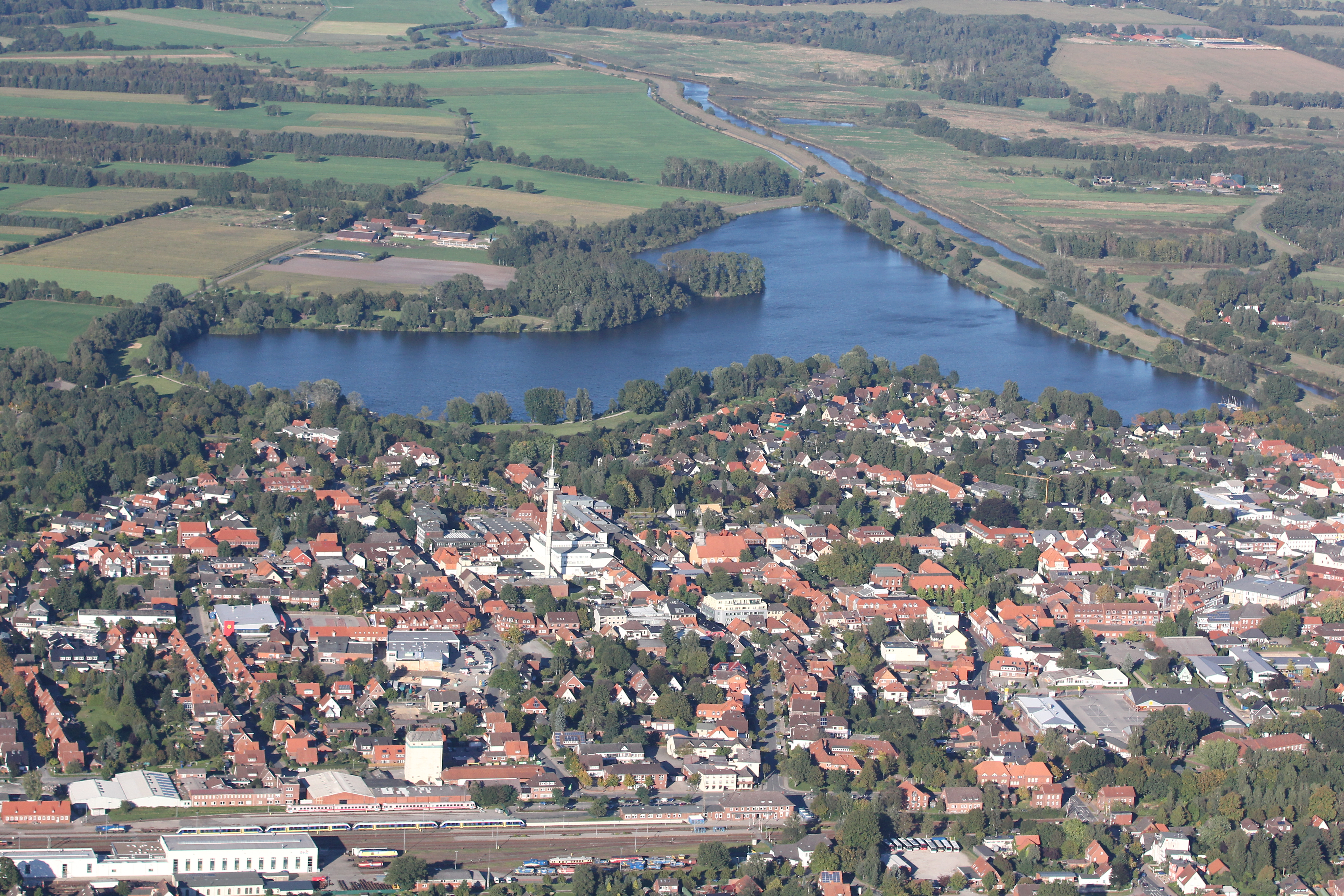 A aerial photograph of a unidentified location.